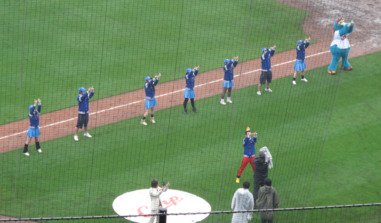 CC DANCE performed first by stadium opening ceremony